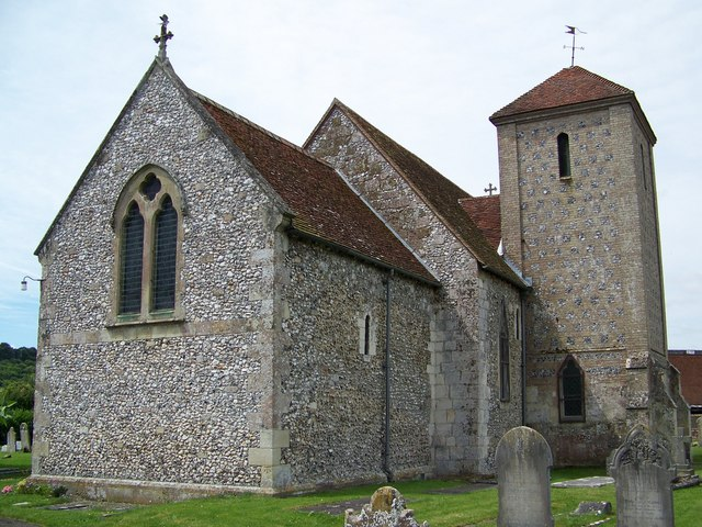 St George's parish church, Harnham, Salisbury, Wiltshire, seen from the east